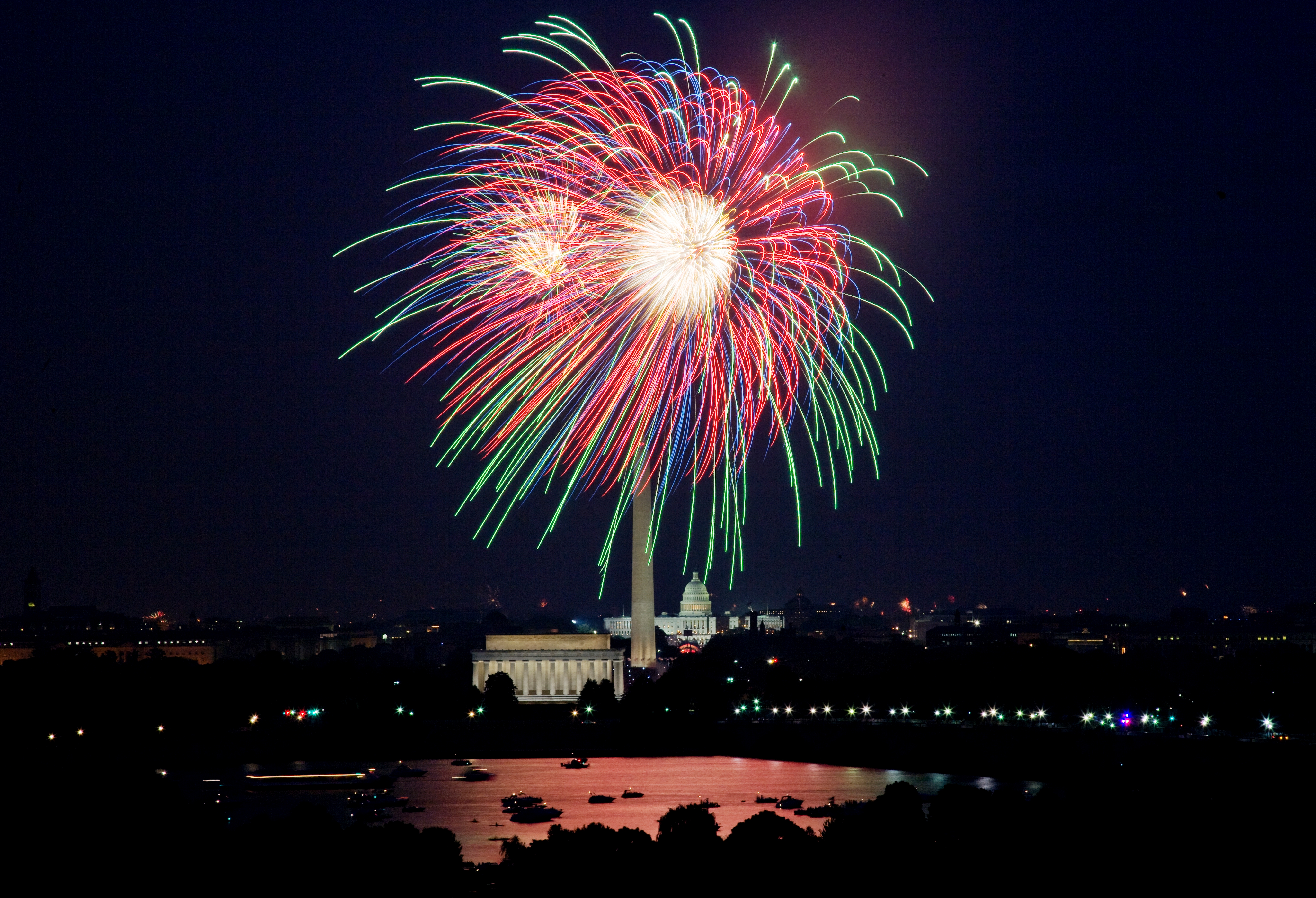 Fireworks on Independence Day are a popular event at the National Mall in Washington, D.C.